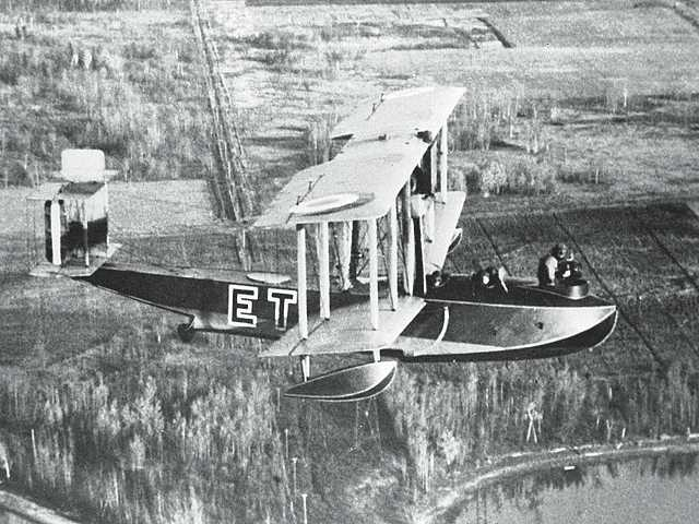 Vickers Viking